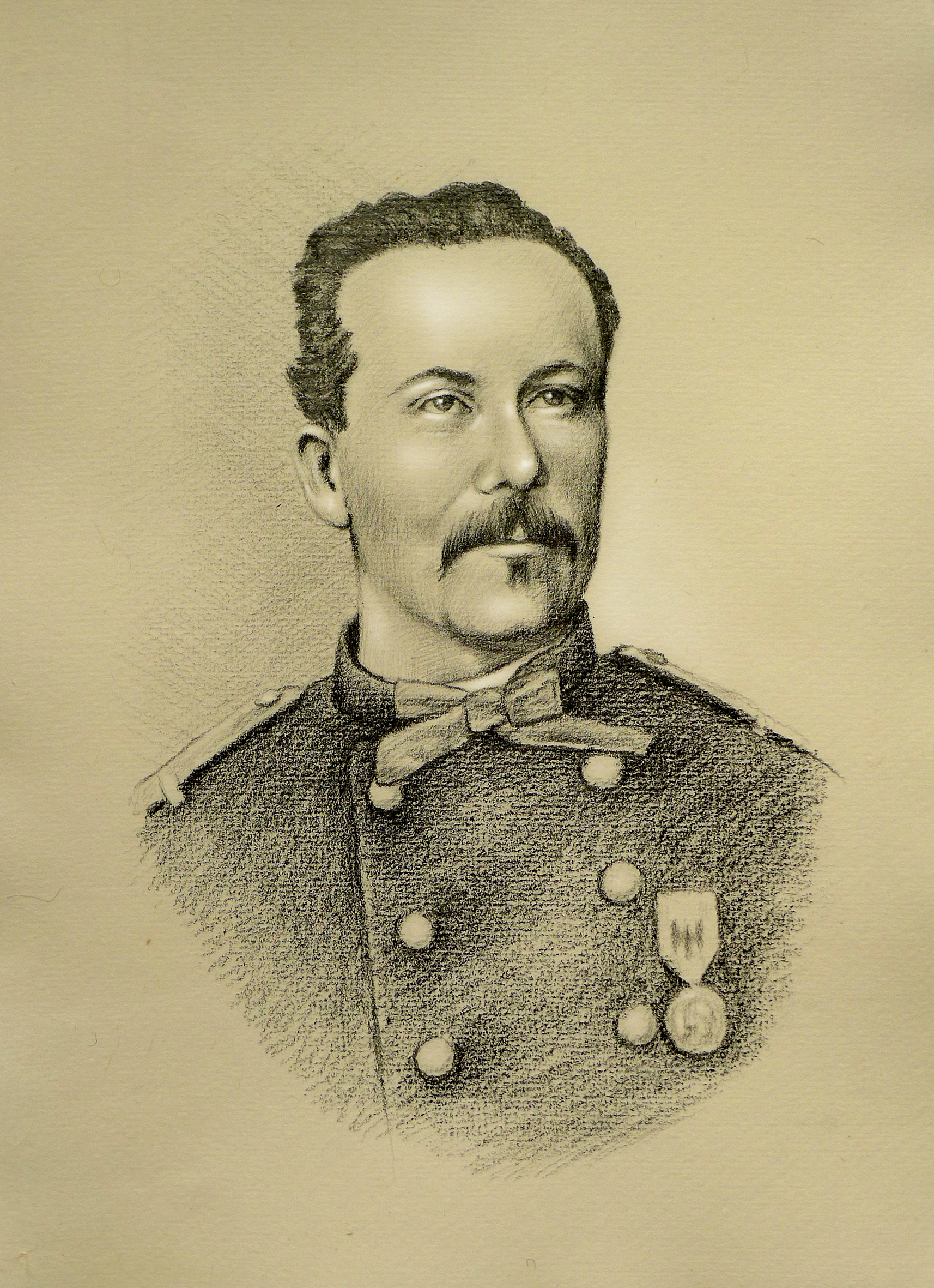 Caporal Maine from battle of Camerone